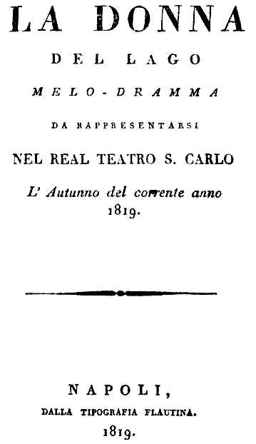 Gioachino Rossini - La donna del lago - titlepage of the libretto - Naples 1819